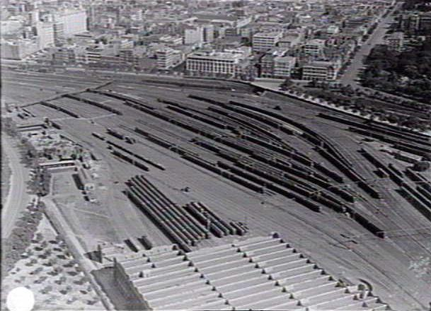 Overhead view of Jolimont Workshops at the bottom, and the sidings of Jolimont Yard